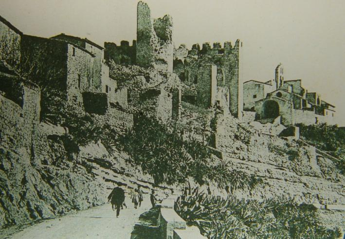 Castellt's castle